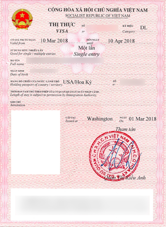 Vietnamese Loose leaf visa, single entry.